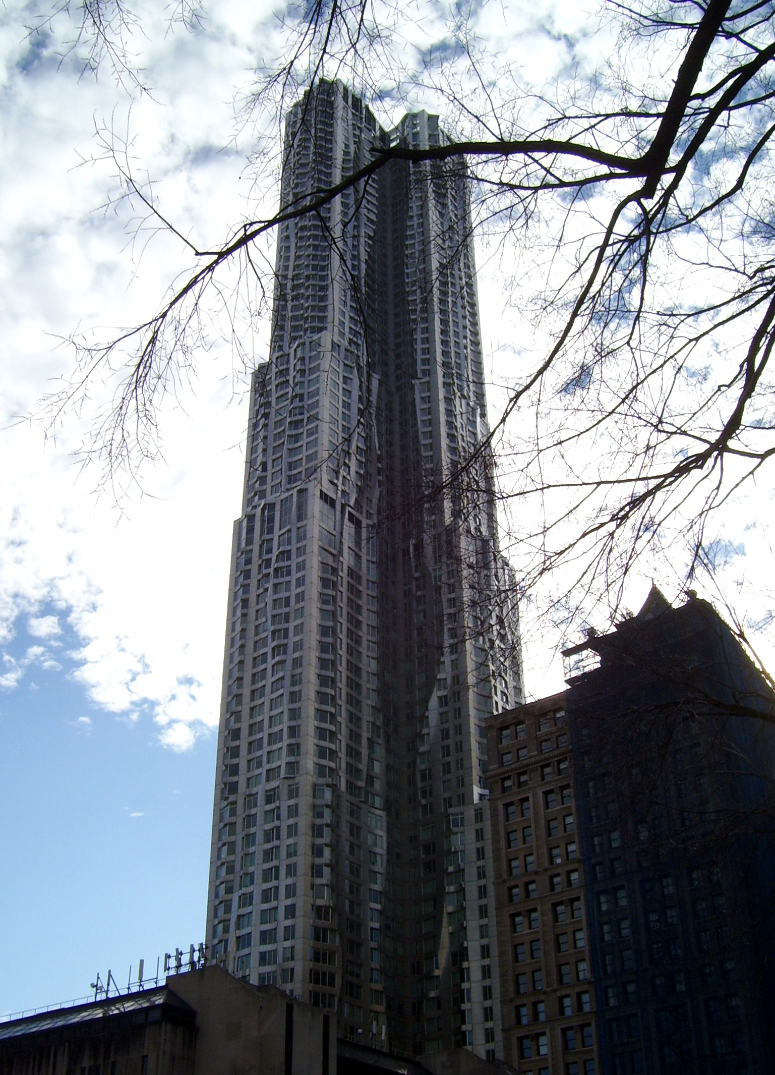 Frank Gehry's 8 Spruce Street, as seen from Park Row.